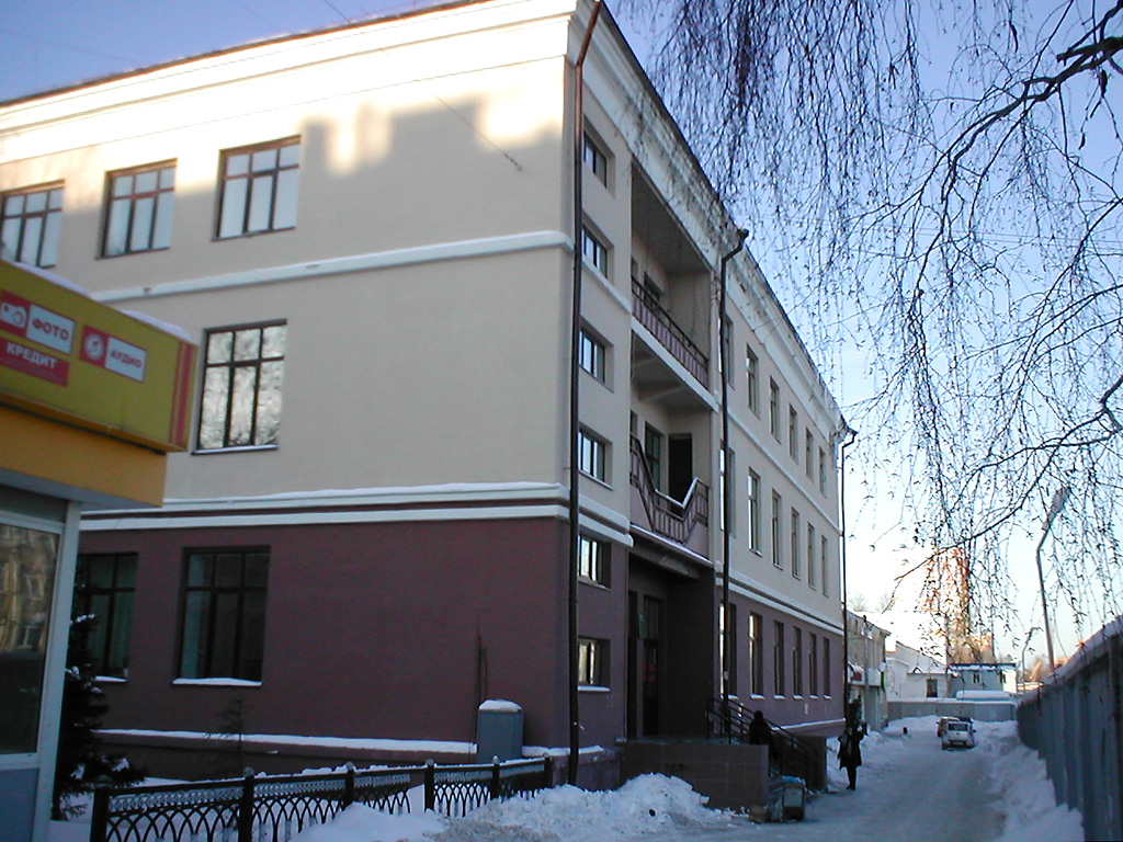 Gaydar club on square in Sotsgorod locality in Kazan